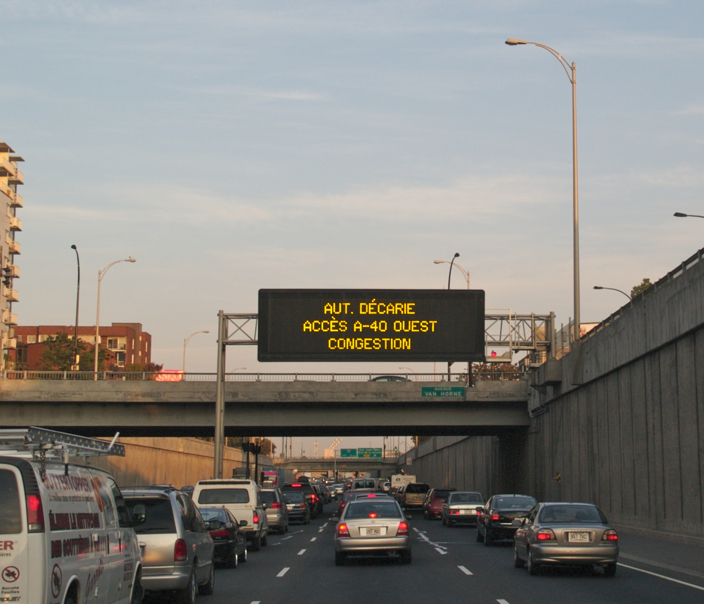 Traffic congestion sign in Montreal, CanadaCongestion